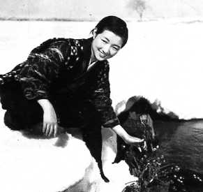 Hideko Takamine in 1941 Japanese movie Uma(Horse).